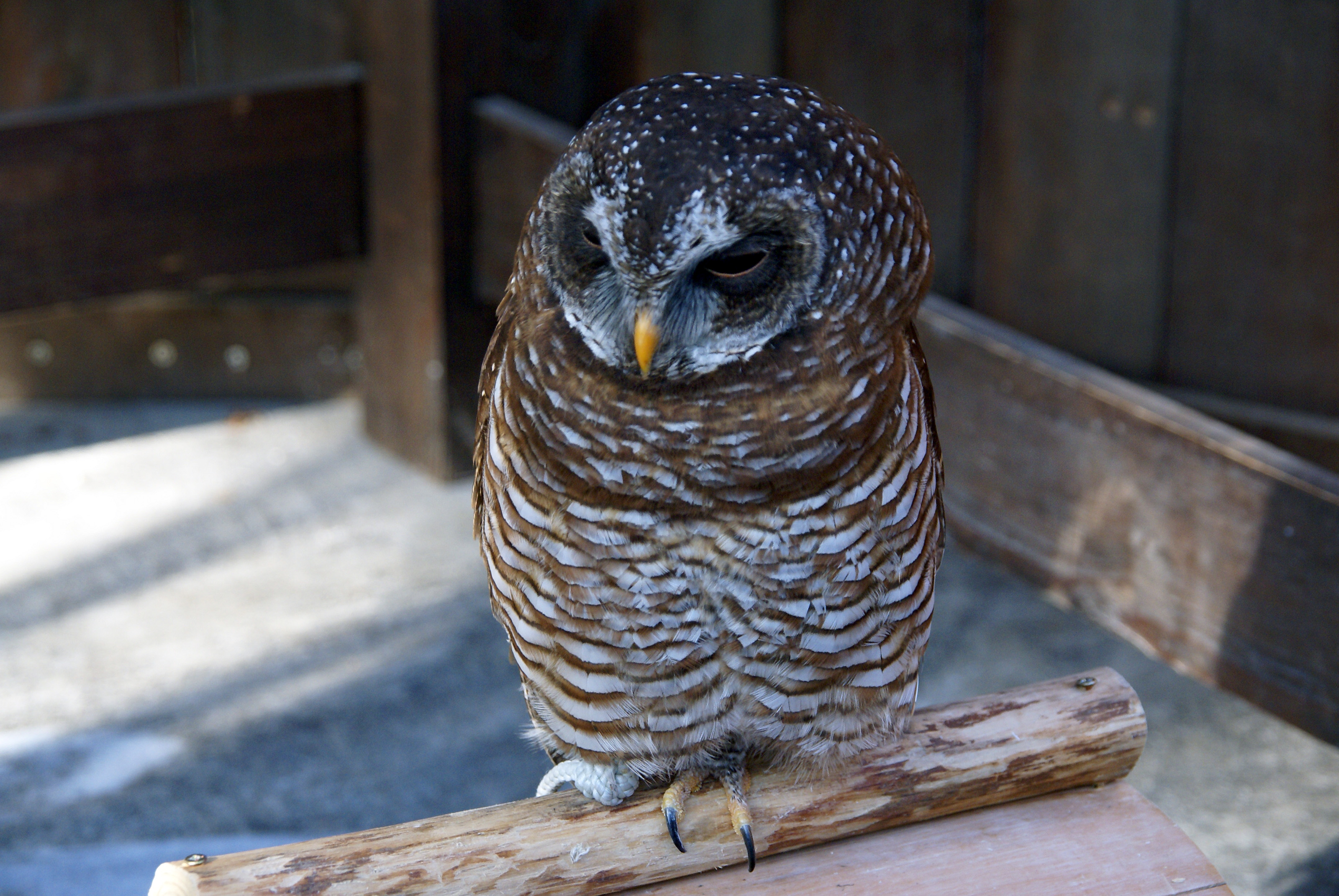 Kobe Kachoen (Kobe Flowers and Birds Garden) in Kobe, Hyogo prefecture, Japan